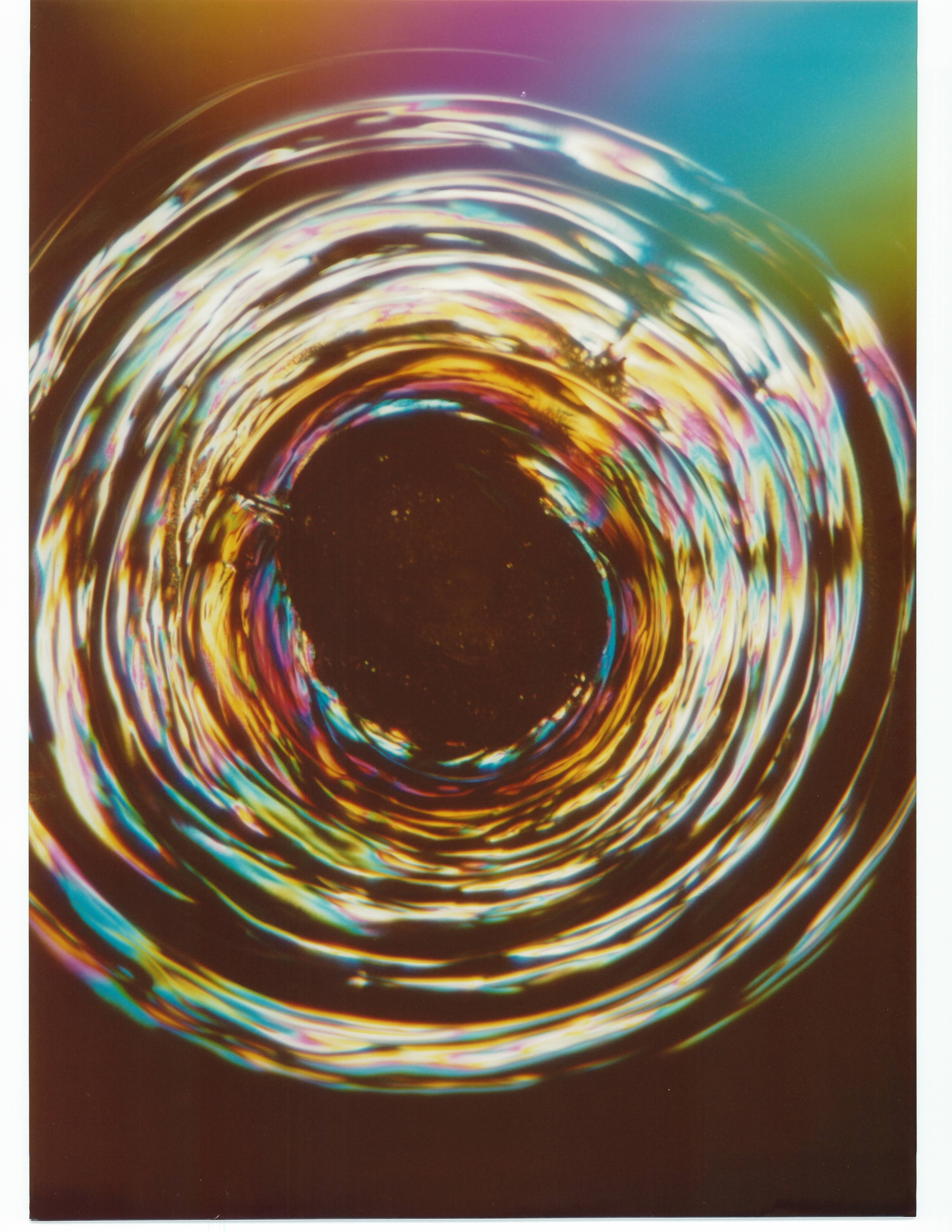 Laser-Induced Optical Damage in LiNbO3 under 150x magnification Nomarski microscopy